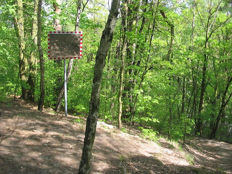 The Murellenberge, the Murellenschlucht and the Schanzenwald (german for: Murellenhill, Murellenravine, Sconceforest) are a hill-landscape from the last gacial period in Berlin-Ruhleben in the district Charlottenburg-Wilmersdorf. It is part of the Teltow-Plateau at its northside in Berlin. In the hills there is the memorial Denkzeichen zur Erinnerung an die Ermordeten der NS-Militärjustiz am Murellenberg (german for: Thought-Signs to commemorate the victims of Nazi military justice at Murellenberg), created by the argentine, in Berlin living, artist Patricia Pisani in 2002.